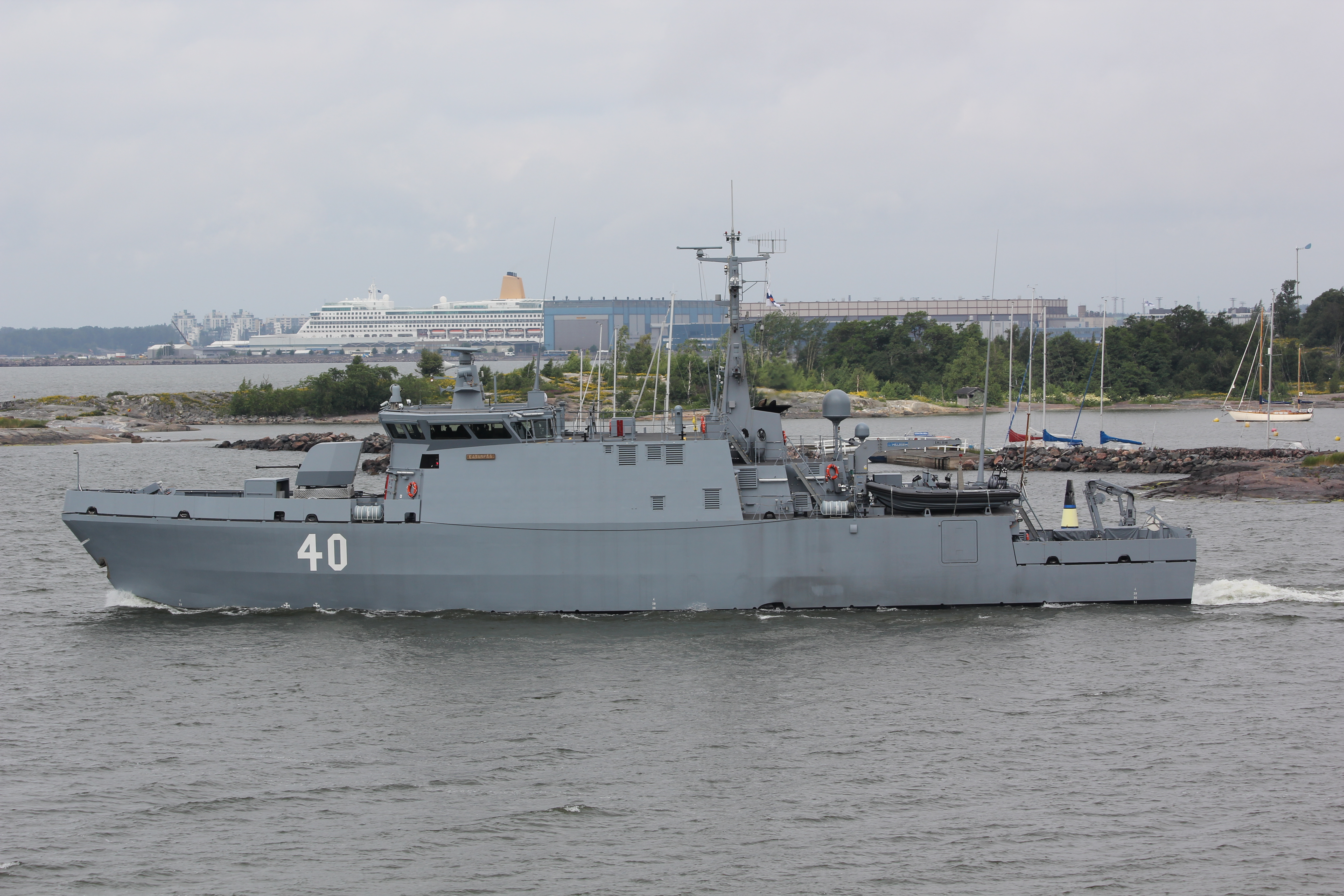 Finnish coastal mine hunter Katanpää (40) in Särkänsalmi strait on the morning after the Finnish navy 2012 anniversary parade.